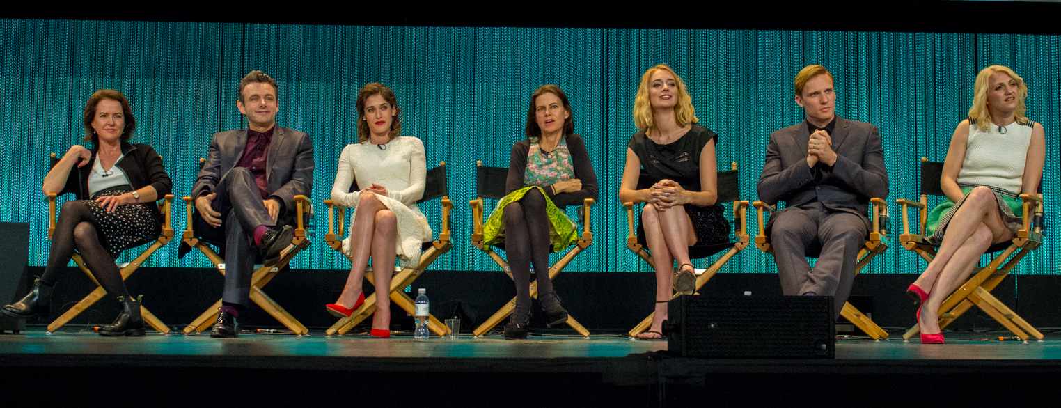 The cast of the TV show "Masters of Sex" at PaleyFest 2014. From left: Michelle Ashford (executive producer), Michael Sheen, Lizzy Caplan, Sarah Timberman (executive producer), Caitlin Fitzgerald, Teddy Sears and Annaleigh Ashford.